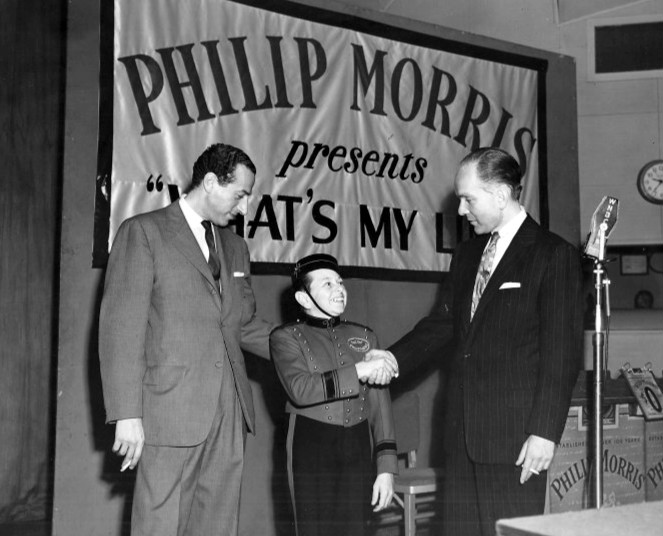 Photo of Mark Goodson, Johnny Roventini and Bill Todman from a 1952 radio version of What's My Line?. The program's sponsor was Phillip Morris and Roventini was their spokesman in the character of Johnny the bellboy.